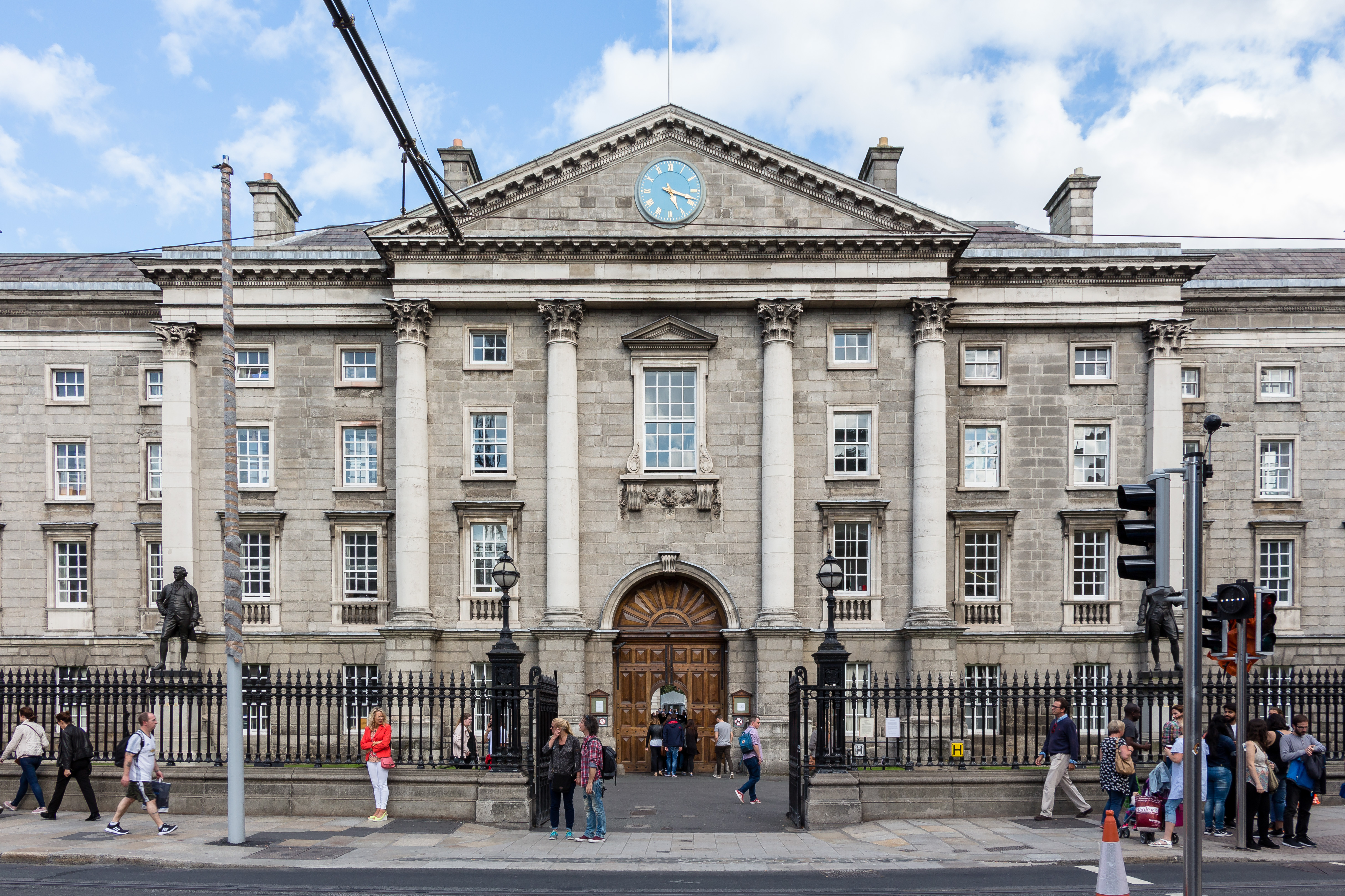 Dublin, Trinity College Dublin. Wikidata has entry Q258464 with data related to this item.